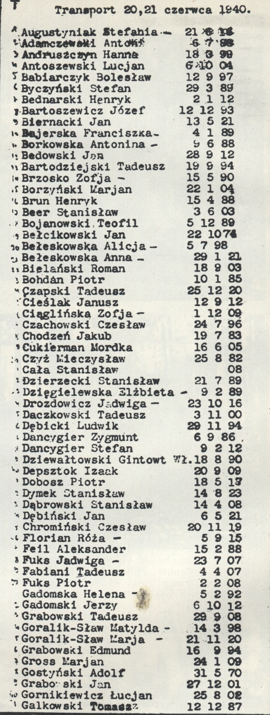 Secret list smuggled from Pawiak prison in Warsaw by the Polish female guard Janina Gruszkowa (member of the resistance movement). It contains some of the names of Polish political prisoners which were executed in the Palmiry forest by the Nazi-German occupants (between 20 and 21 June 1940).